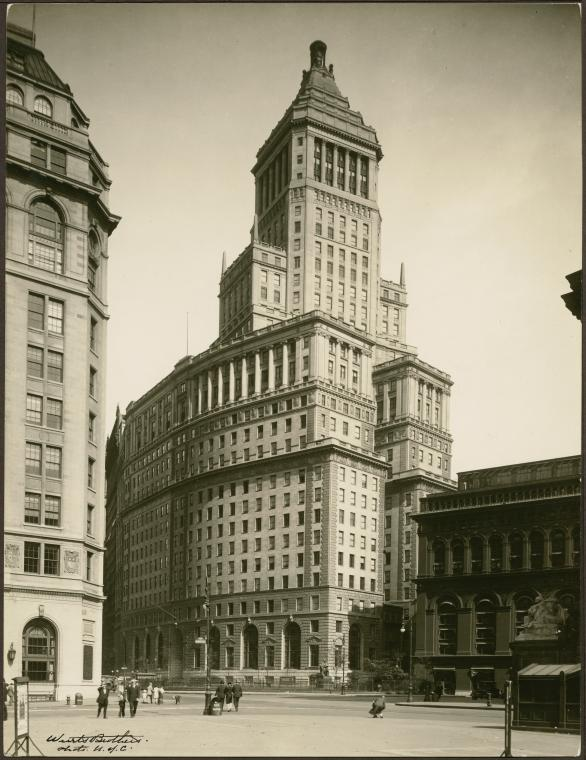 Standard Oil Building at 26 Broadway - Morris Street.